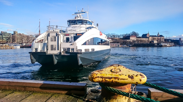 MS Tidevind at Aker Brygge, Oslo